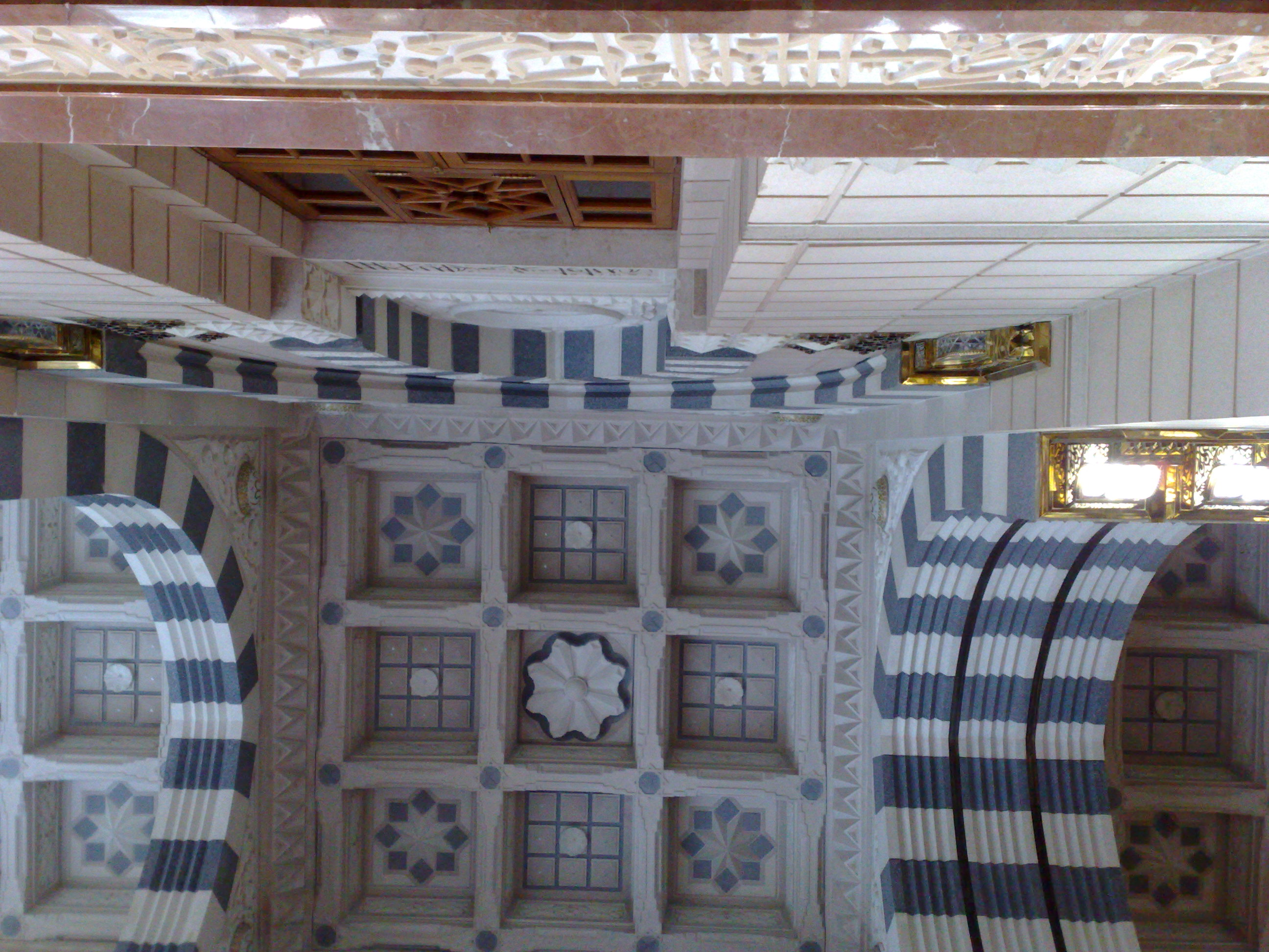 Al-Masjid al-Nabawi roof